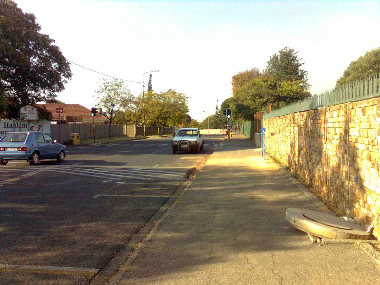 6th Avenue in Lambton, a suburb of Germiston, Gauteng.